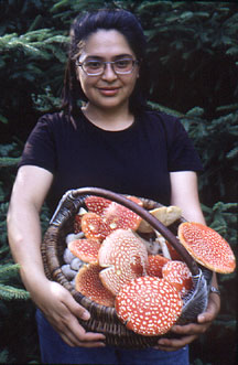 a basket full of amanitas muscaria(toxic),in the intend to be eaten after a detoxifying procedure